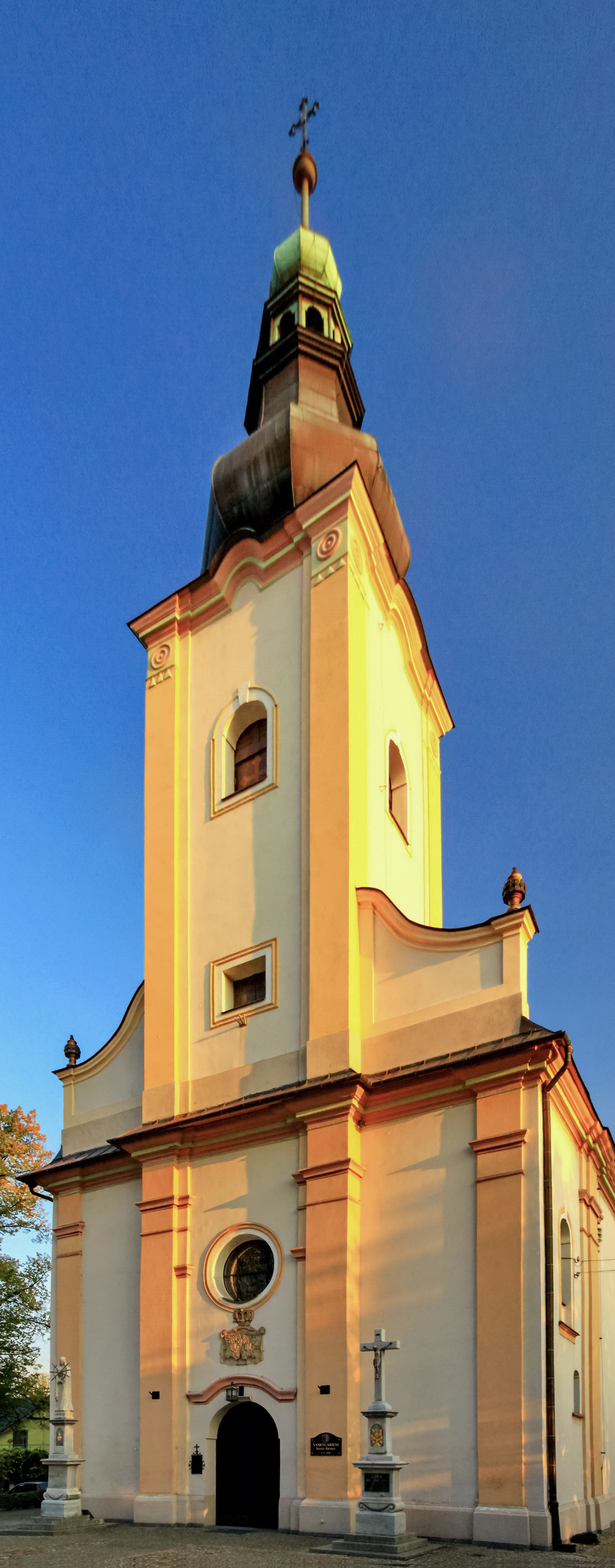 Saint Barbara church. Strumień, Silesian Voivodeship, Poland.